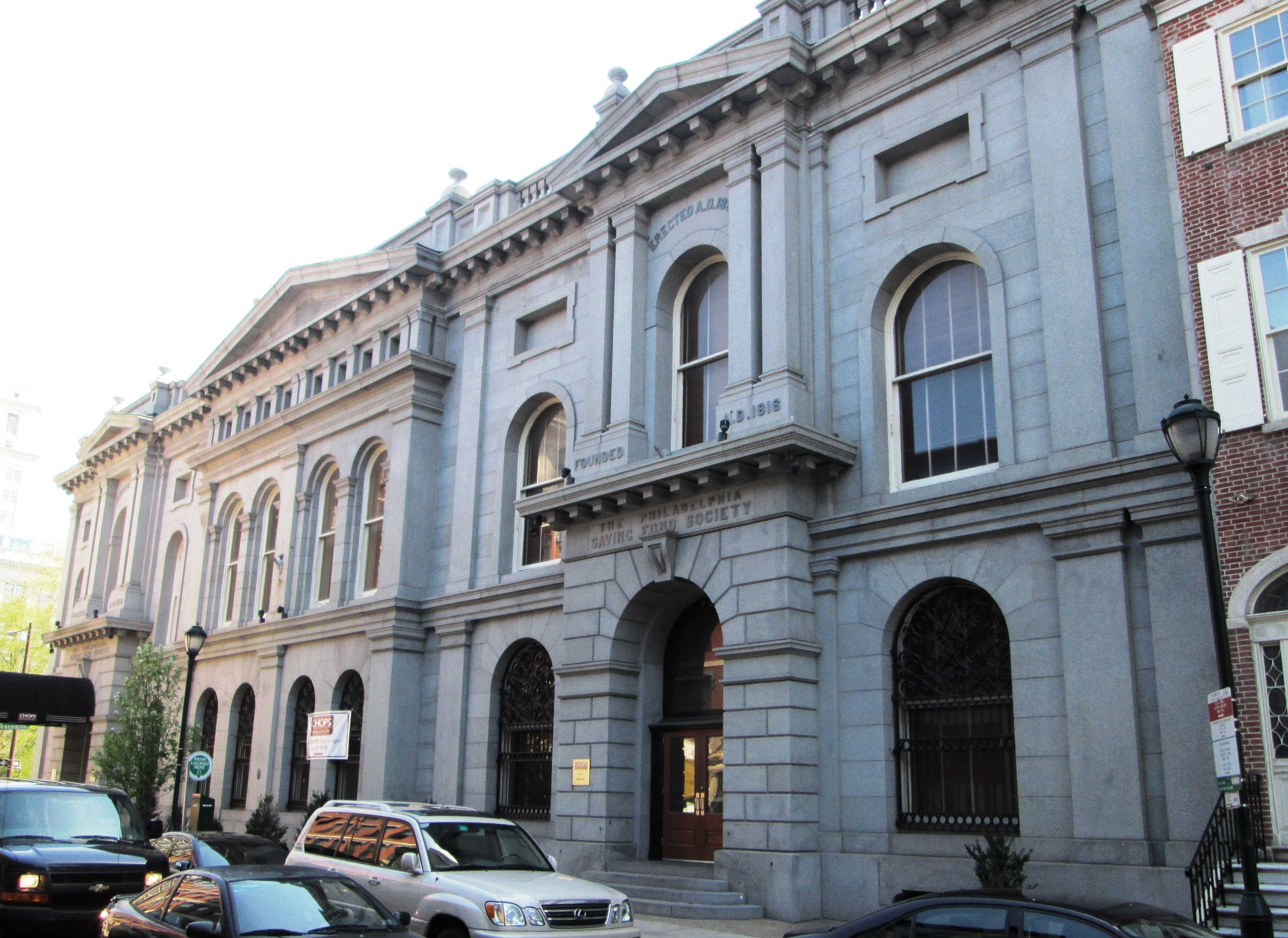 The Philadelphia Savings Fund Society was a savings bank headquartered in Philadelphia, Pennsylvania, founded in 1816, the first savings bank to organize and do business in the United States. The Society went through a number of headquarters locations until 1840 when a new building designed by Thomas U. Walter was opened at 306 Walnut Street between S. 3rd and S. 4th Streets.Then, in 1868-9, a new Italianate-style headquarters building designed by Addison Hutton of Sloan & Hutton was completed at 700-710 Walnut Street at West Washington Square. Hutton received the commission by winning a design contest, and the resulting building established his career. Additions to the building were later made in 1885-86, 1897-98 and 1930. The 1883 addition, half of the center pavilion, was designed by Hutton; the 1897 addition, the other half of the center pavilion and the west pavilion, was designed by Frank Furness of Furness, Evans & Company; the 1929-31 addition, alterations and vault rooms, was designed by Loew & Lescaze. (Sources: Philadelphia Architecture: A Guide to the City (2nd ed.), Architecture in Philadelphia: A Guide and "Washington Square" on )